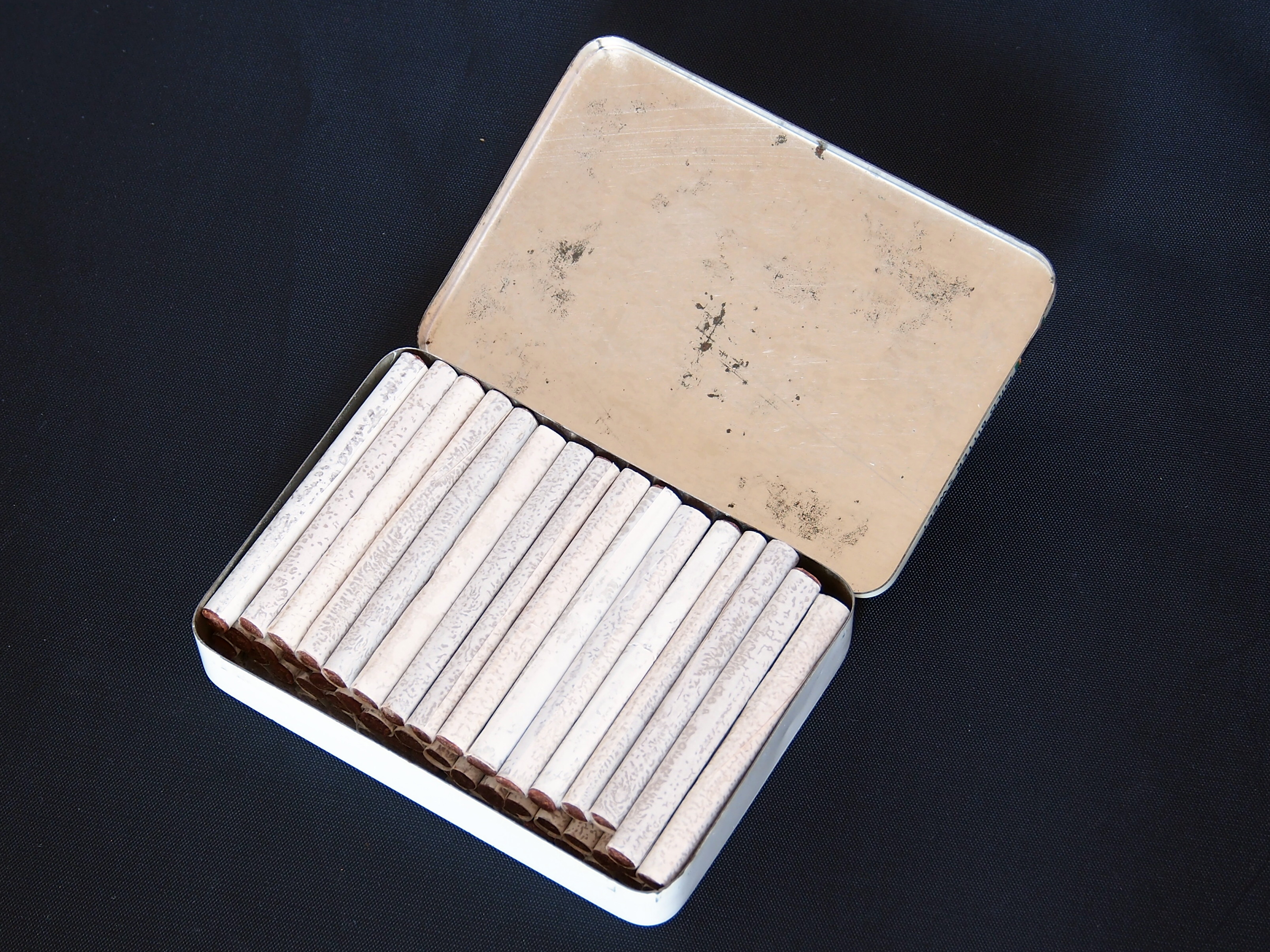 Photographed at a collector of Droste. For info see tincollectors.nl or